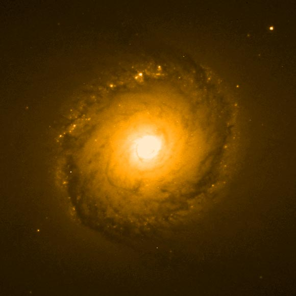 ABOUT THIS IMAGE: The orange (8269 Å) depicts near-infrared light, which cannot be seen by the human eye. Image taken by HST's Wide Field and Planetary Camera 2. Object Name: NGC 1512 Image Type: Astronomical